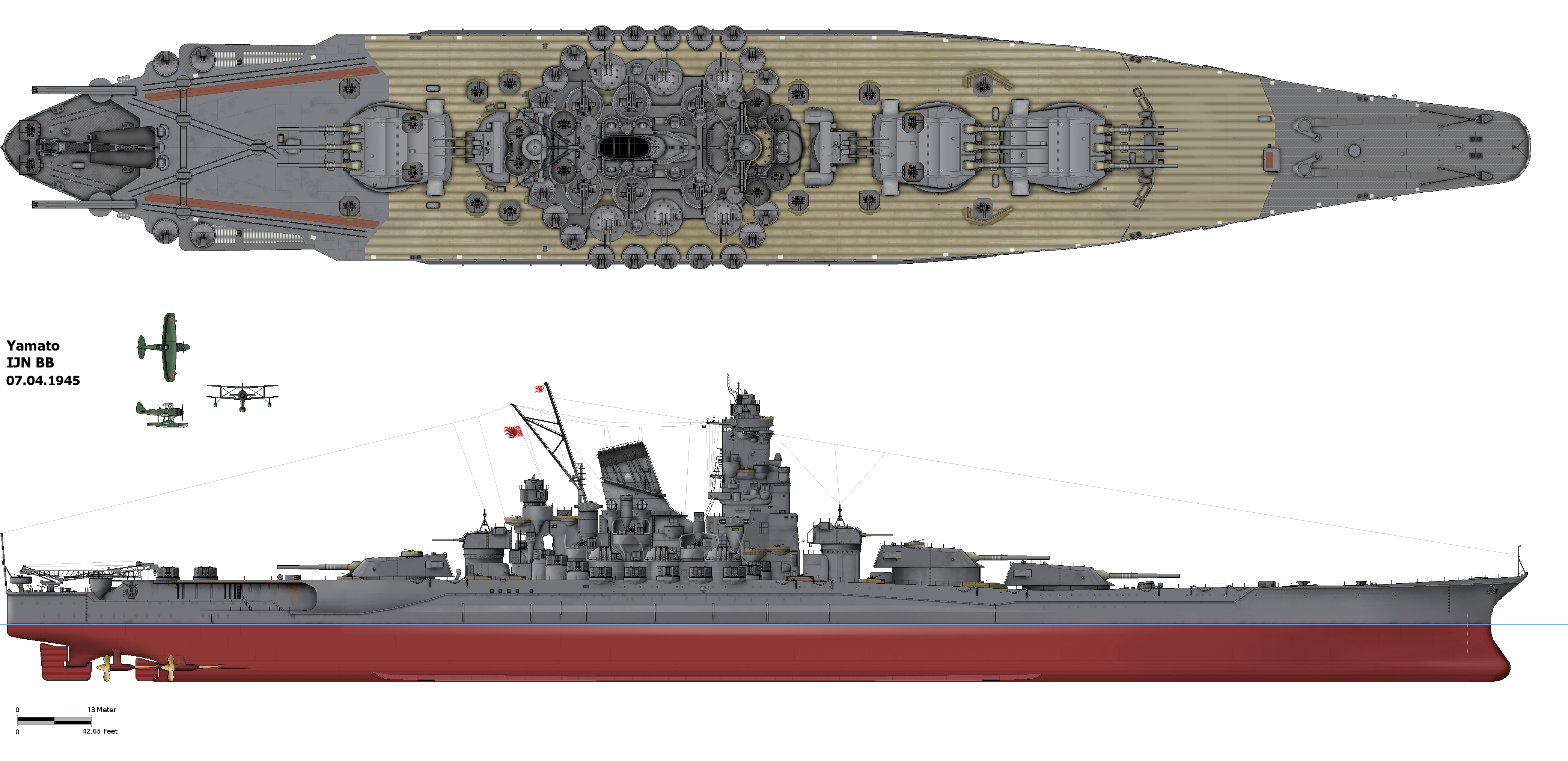 Drawing of IJN Superbattleship Yamato in her final configuration on April the 7th 1945.